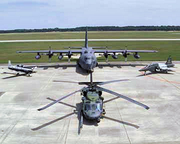 Aircraft of the 23d Wing - Moody Air Force Base, Georgia